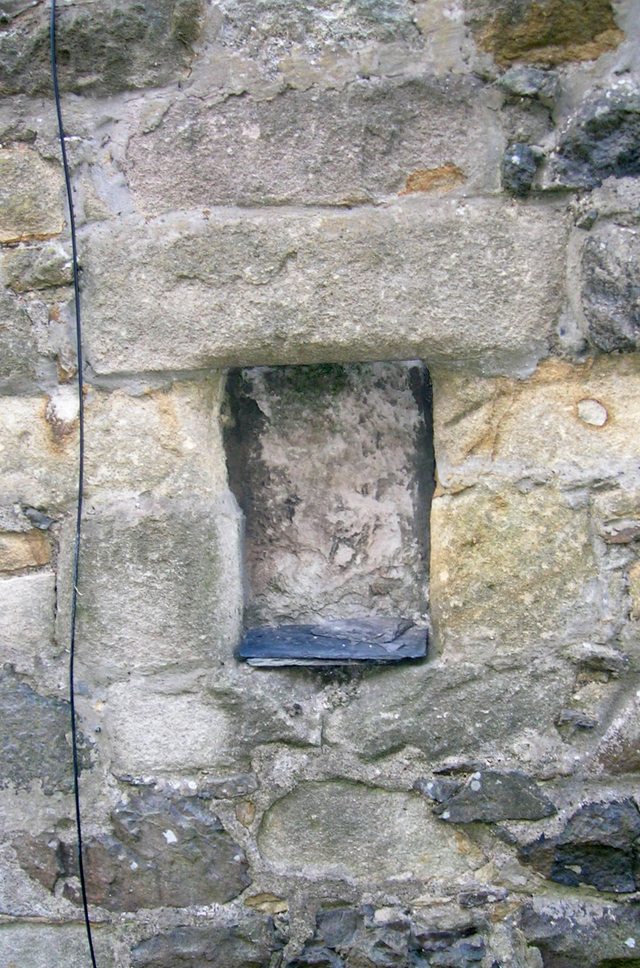 Old hatch, Buck's Head Inn, Buck's Head Close, Stewarton, East Ayrshire, Scotland.